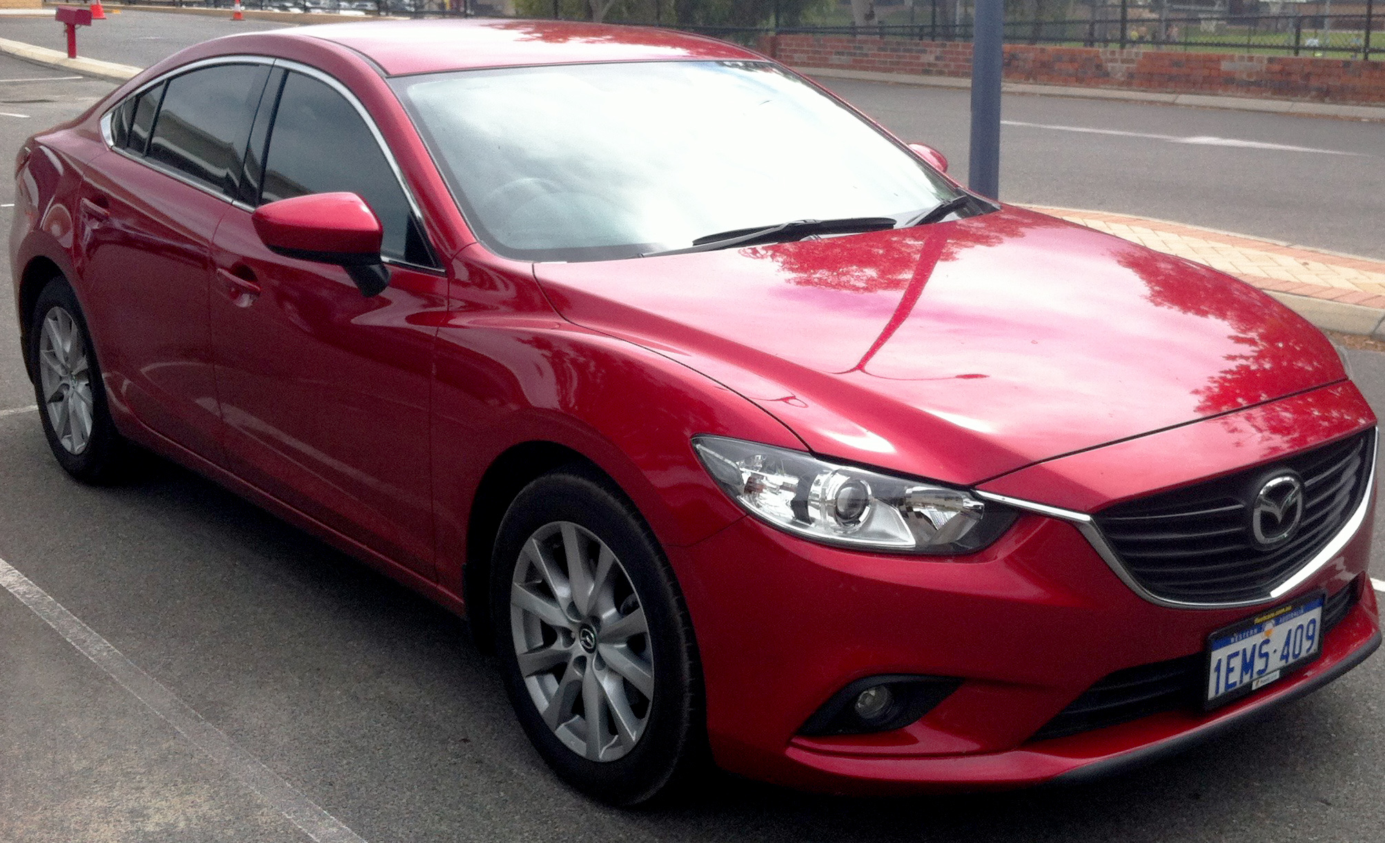 2014 Mazda 6 (GJ) Sports sedan. Photographed in Claremont, Western Australia Australia